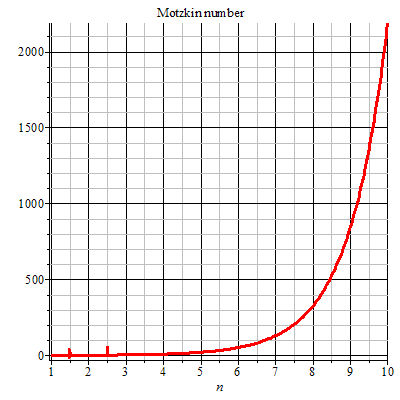 Motzkin Number